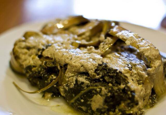 Spicy Healthy Food authentic from Bicol